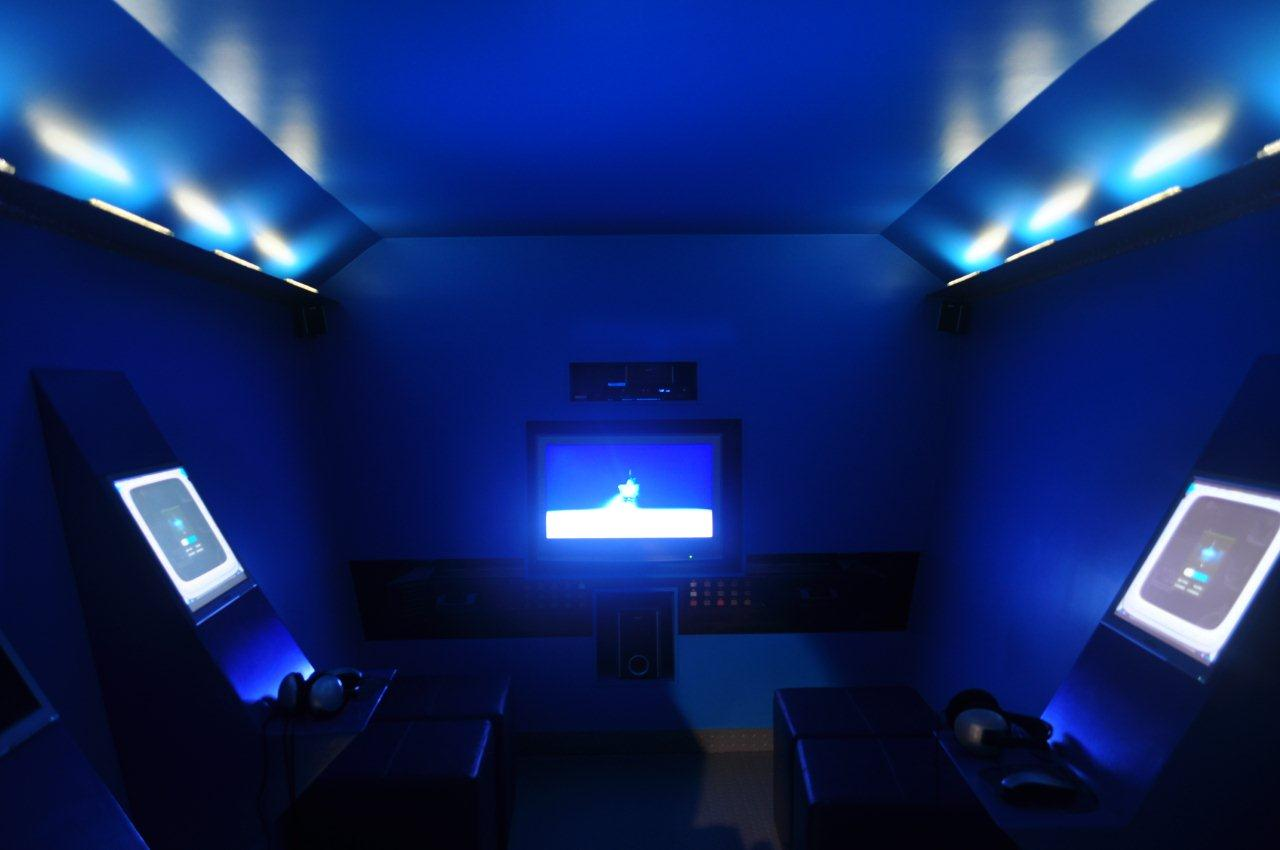 Submarine simulator